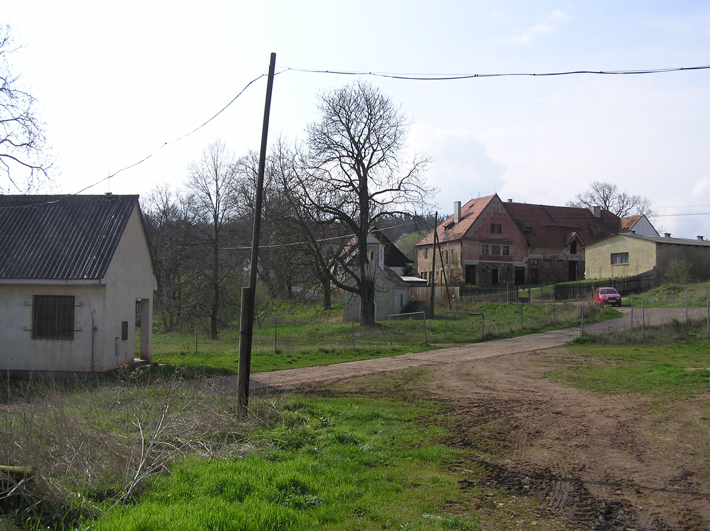 Village square in Mukoděly